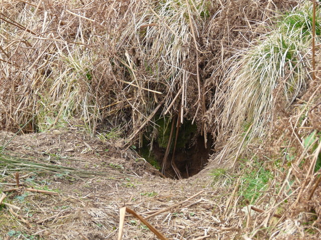 Badger sett (detail). A small sett, but with evidence of recent activity.